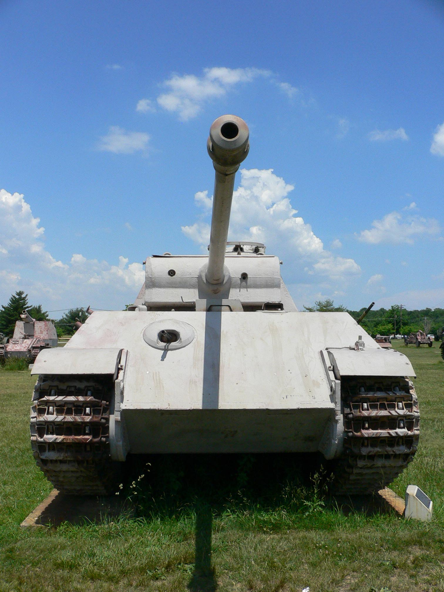 Picture taken by myself, Mark Pellegrini, at the United States Army Ordnance Museum (Aberdeen Proving Ground, MD) on June 12, 2007.